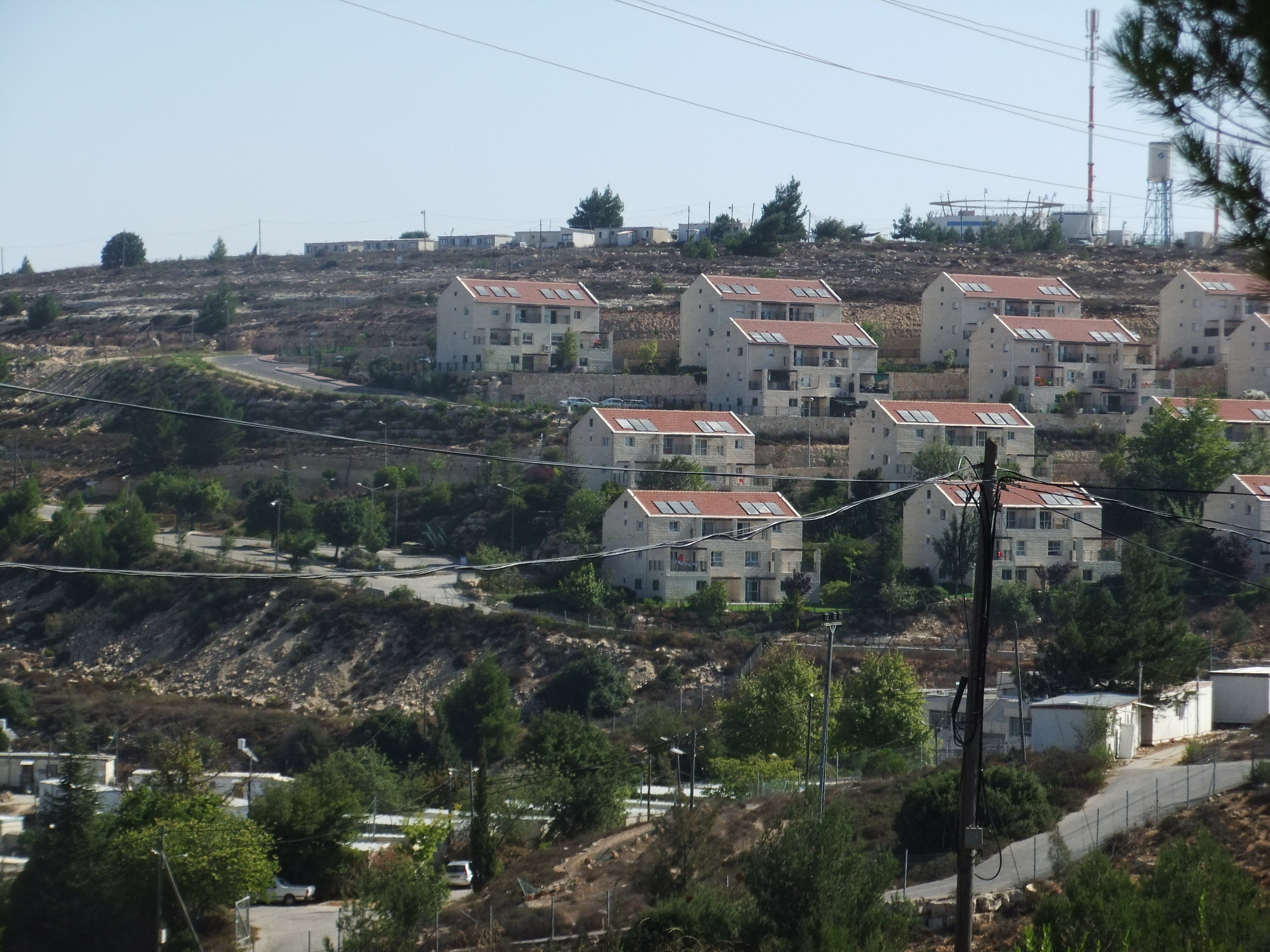 Ulpana outpost of Beit El. In the background the outpost Jabel Artis (also named Pisgat Ya'akov).